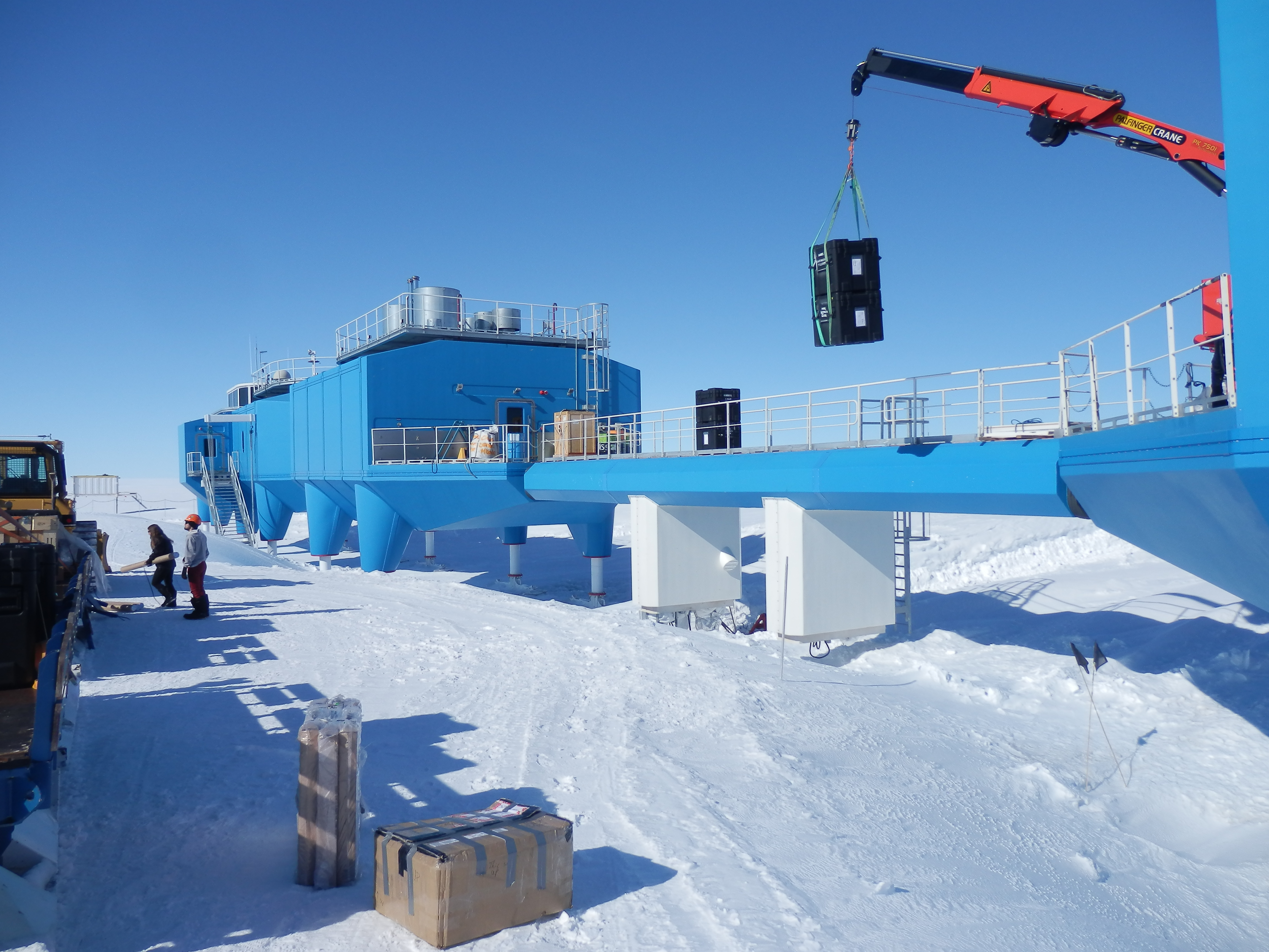 A crane lowers two BARREL balloon payloads onto the platform at Halley Research Station in Antarctica. Credit: NASA --- In Antarctica in January, 2013 – the summer at the South Pole – scientists launched 20 balloons up into the air to study an enduring mystery of space weather: when the giant radiation belts surrounding Earth lose material, where do the extra particles actually go? The mission is called BARREL (Balloon Array for Radiation belt Relativistic Electron Losses) and it is led by physicist Robyn Millan of Dartmouth College in Hanover, NH. Millan provided photographs from the team’s time in Antarctica. The team launched a balloon every day or two into the circumpolar winds that circulate around the pole. Each balloon floated for anywhere from 3 to 40 days, measuring X-rays produced by fast-moving electrons high up in the atmosphere. BARREL works hand in hand with another NASA mission called the Van Allen Probes, which travels through the Van Allen radiation belts surrounding Earth. The belts wax and wane over time in response to incoming energy and material from the sun, sometimes intensifying the radiation through which satellites must travel. Scientists wish to understand this process better, and even provide forecasts of this space weather, in order to protect our spacecraft. As the Van Allen Probes were observing what was happening in the belts, BARREL tracked electrons that precipitated out of the belts and hurtled down Earth’s magnetic field lines toward the poles. By comparing data, scientists will be able to track how what’s happening in the belts correlates to the loss of particles – information that can help us understand this mysterious, dynamic region that can impact spacecraft. Having launched balloons in early 2013, the team is back at home building the next set of payloads. They will launch 20 more balloons in 2014.